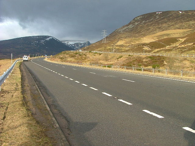 Northbound Carriageway of the A9 Looking towards the Pass of Drumochter.